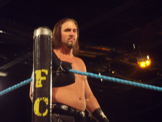 Former ECW Superstar looking at the crowd. Don't know what show he's going to end up on after ECW went dark.